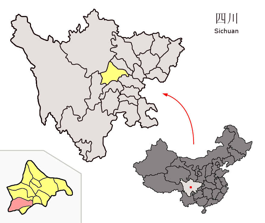 Location of Qionglai City (pink) and Chengdu Prefecture (yellow) within Sichuan province of China Map drawn in september 2007 using various sources, mainly : Sichuan province administrative regions GIS data: 1:1M, County level, 1990 Sichuan Counties map from